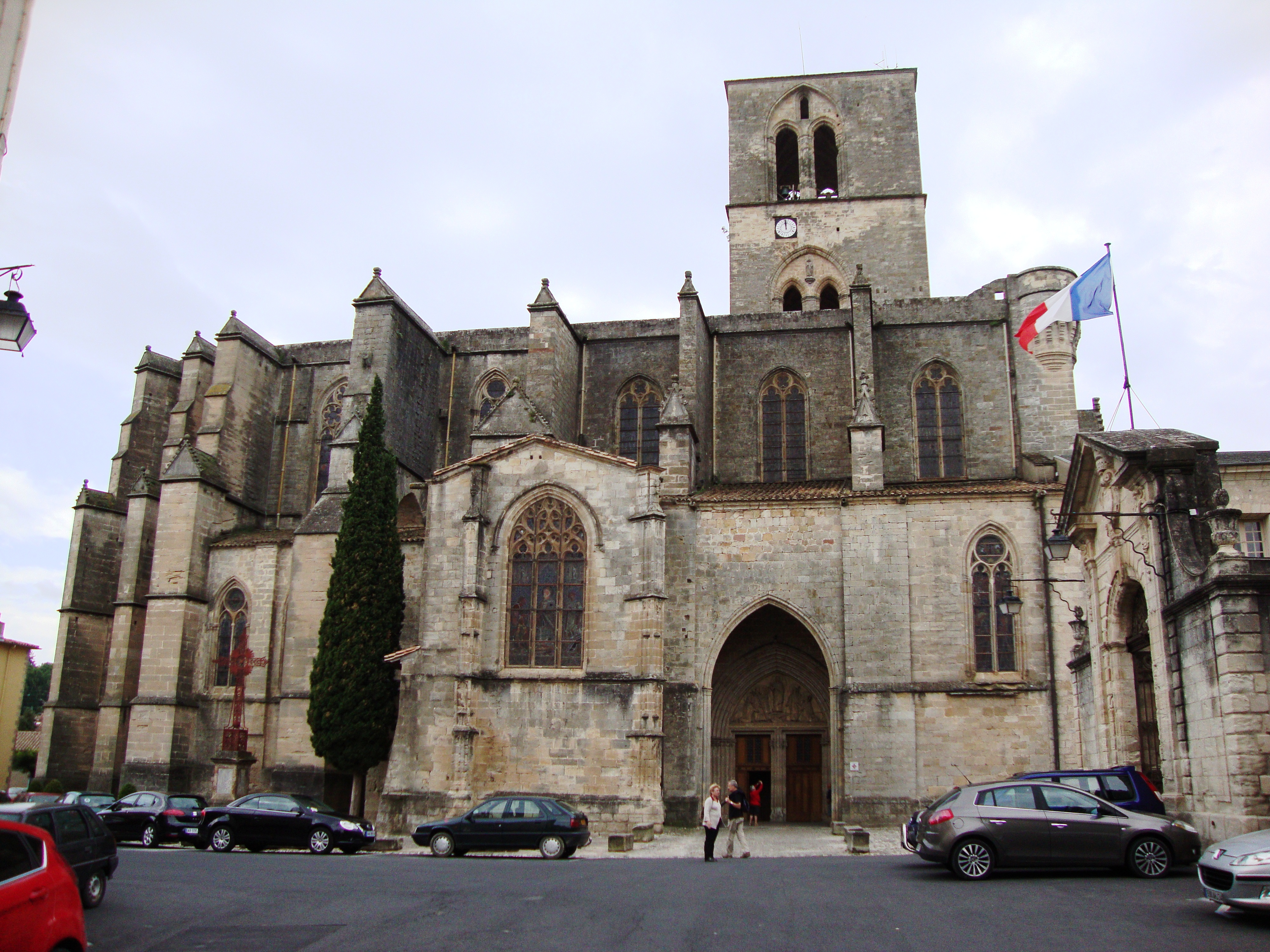 Lodève (Hérault, Fr) cathédrale